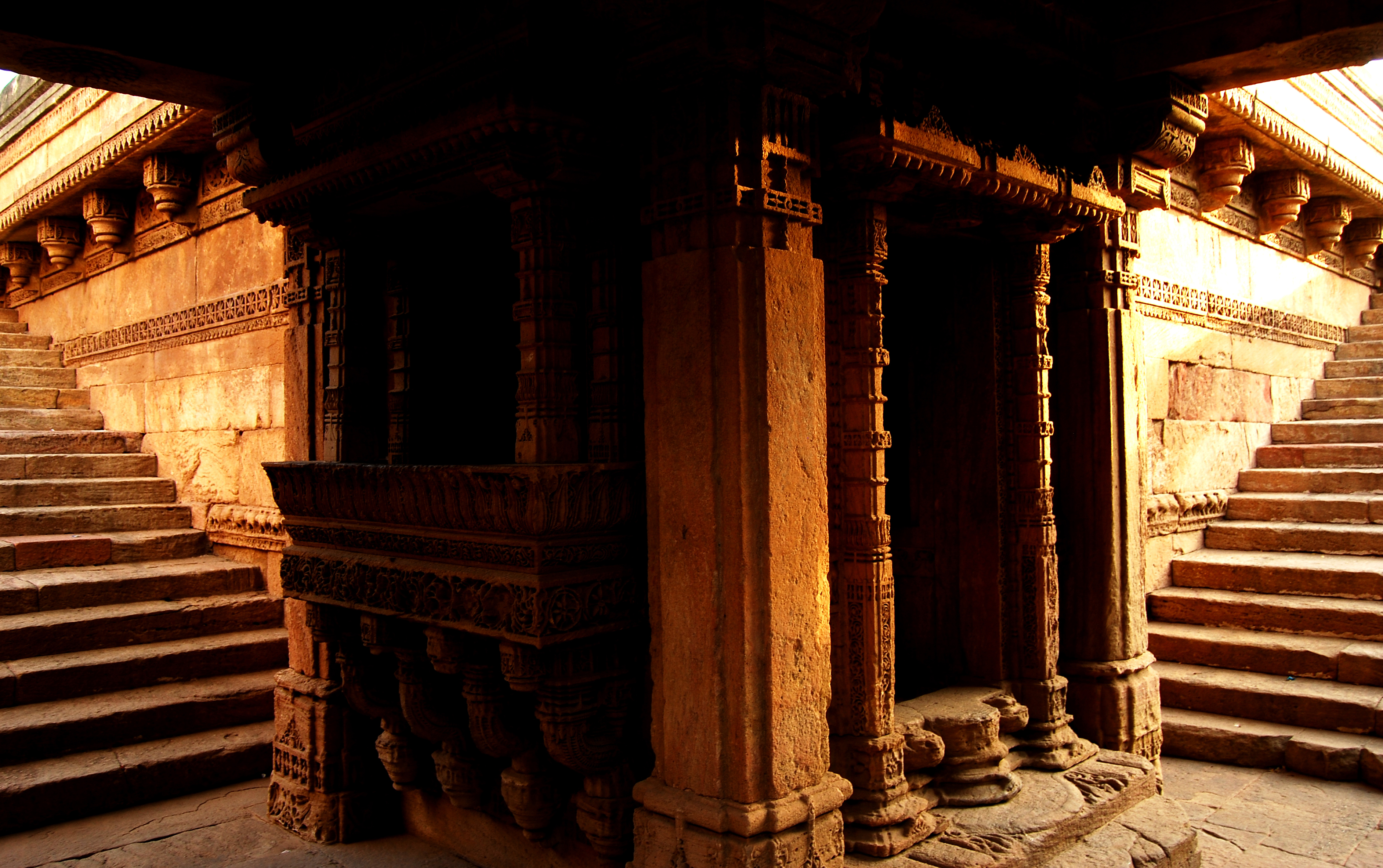 Stairs at Rudabai stepwell, Adalaj, near Gandhinagar, Gujarat, India